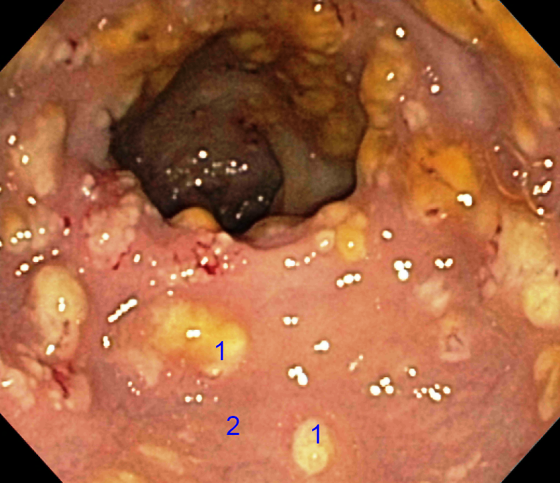 Pseudomembranous colitis